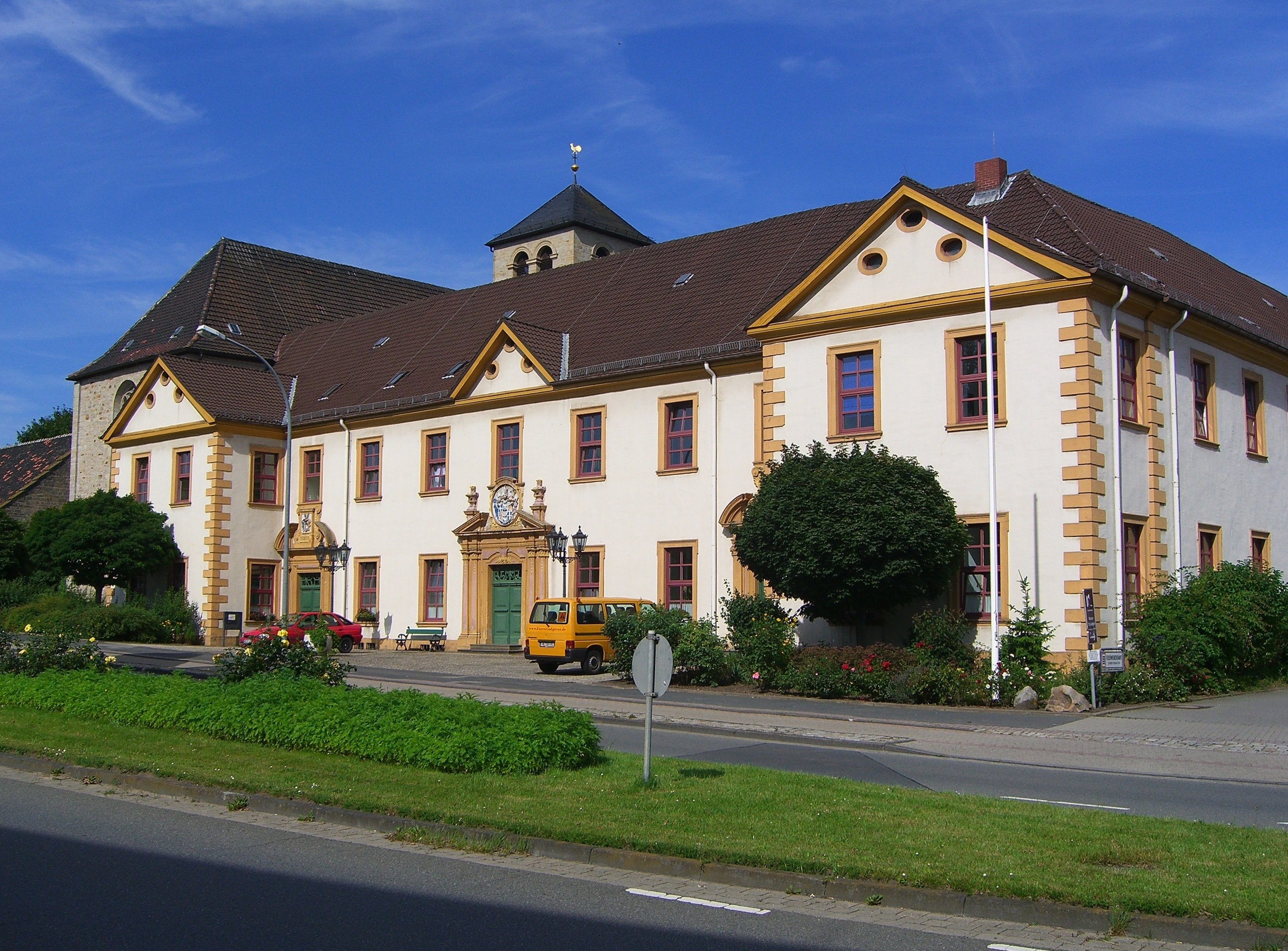 former convent building and church Saint Ludgeri in Helmstedt